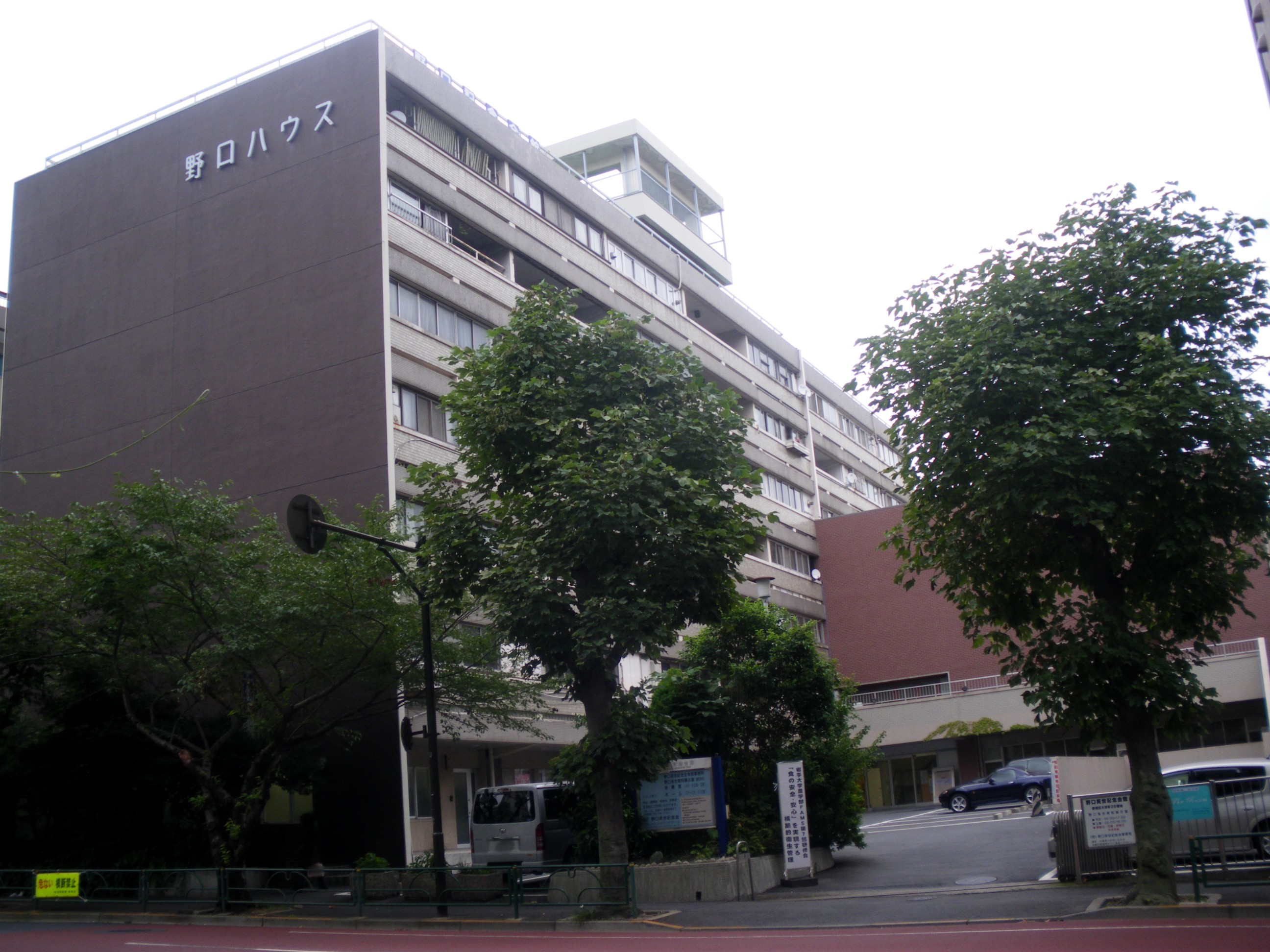 Hideyo Noguchi Memorial Hall(Daikyocho,Shinjuku,Tokyo)